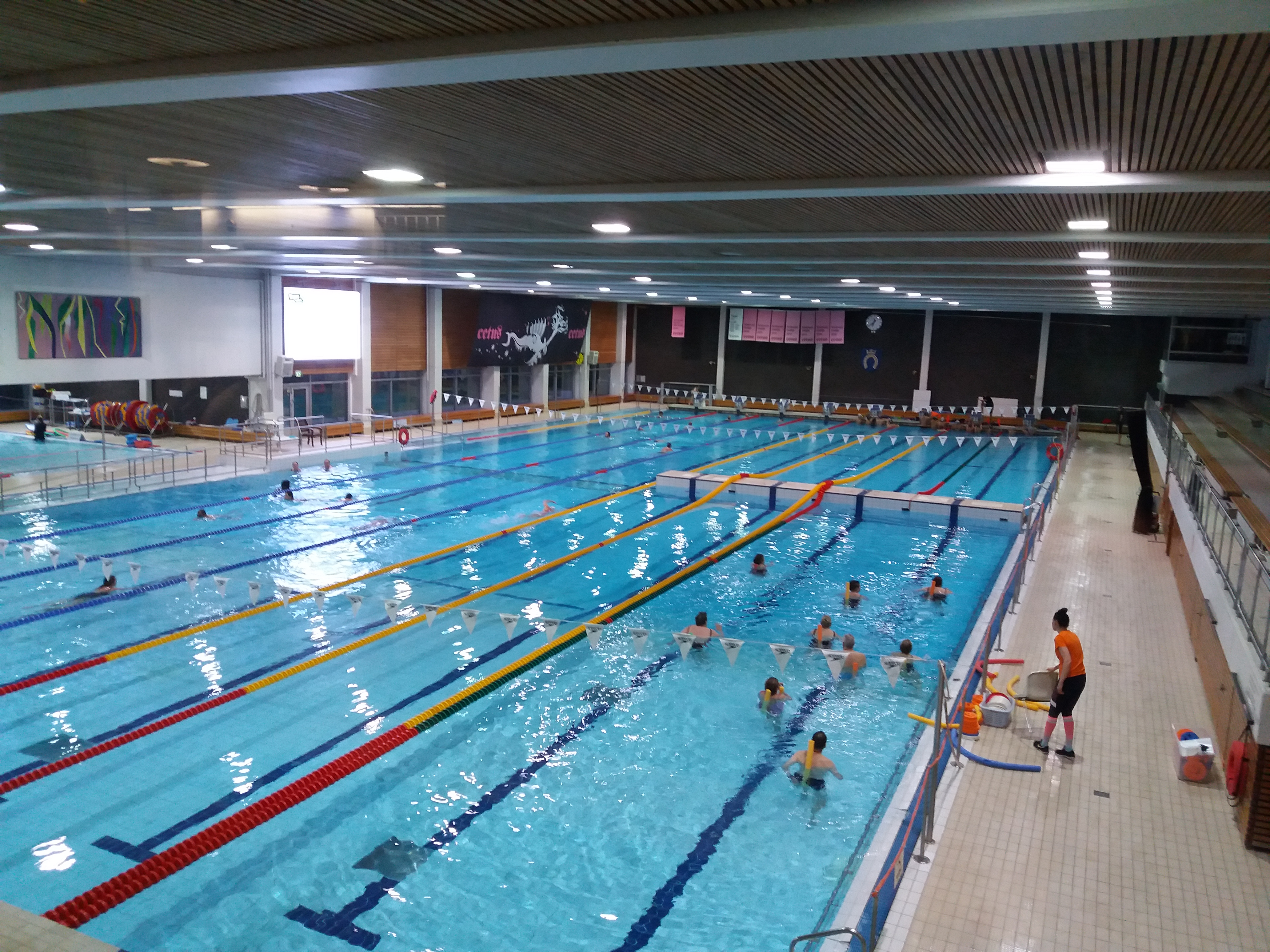 Interior of Espoonlahti swimming hall in Espoo, Finland